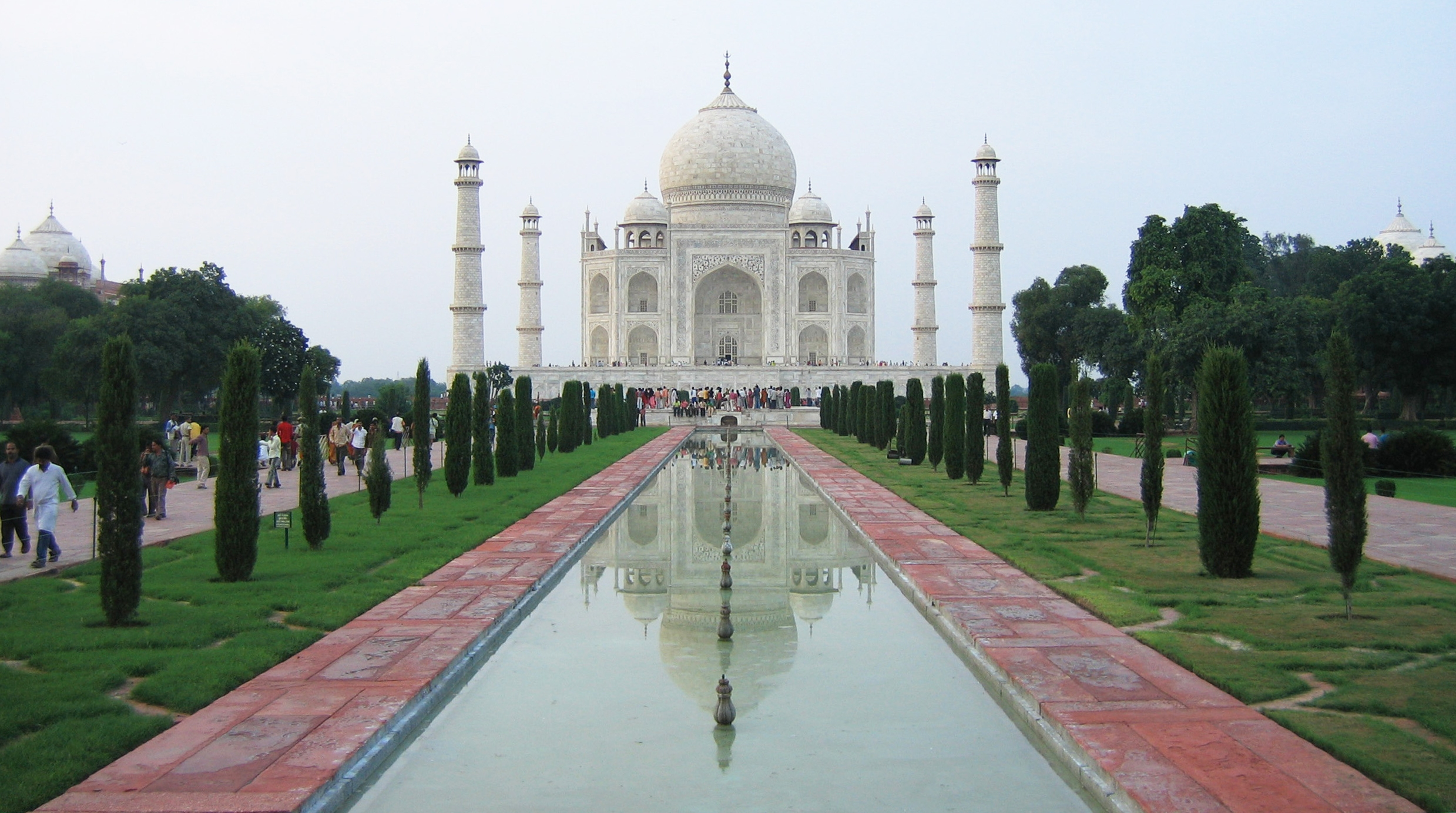 Taj Mahal, Agra views from around